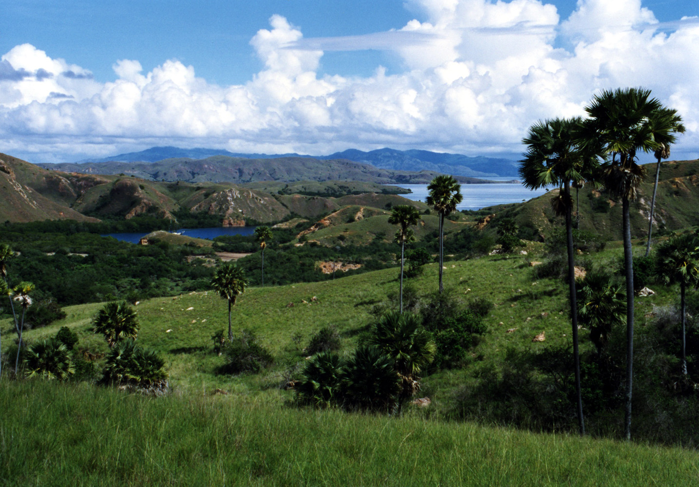 Rinca Island, 1998